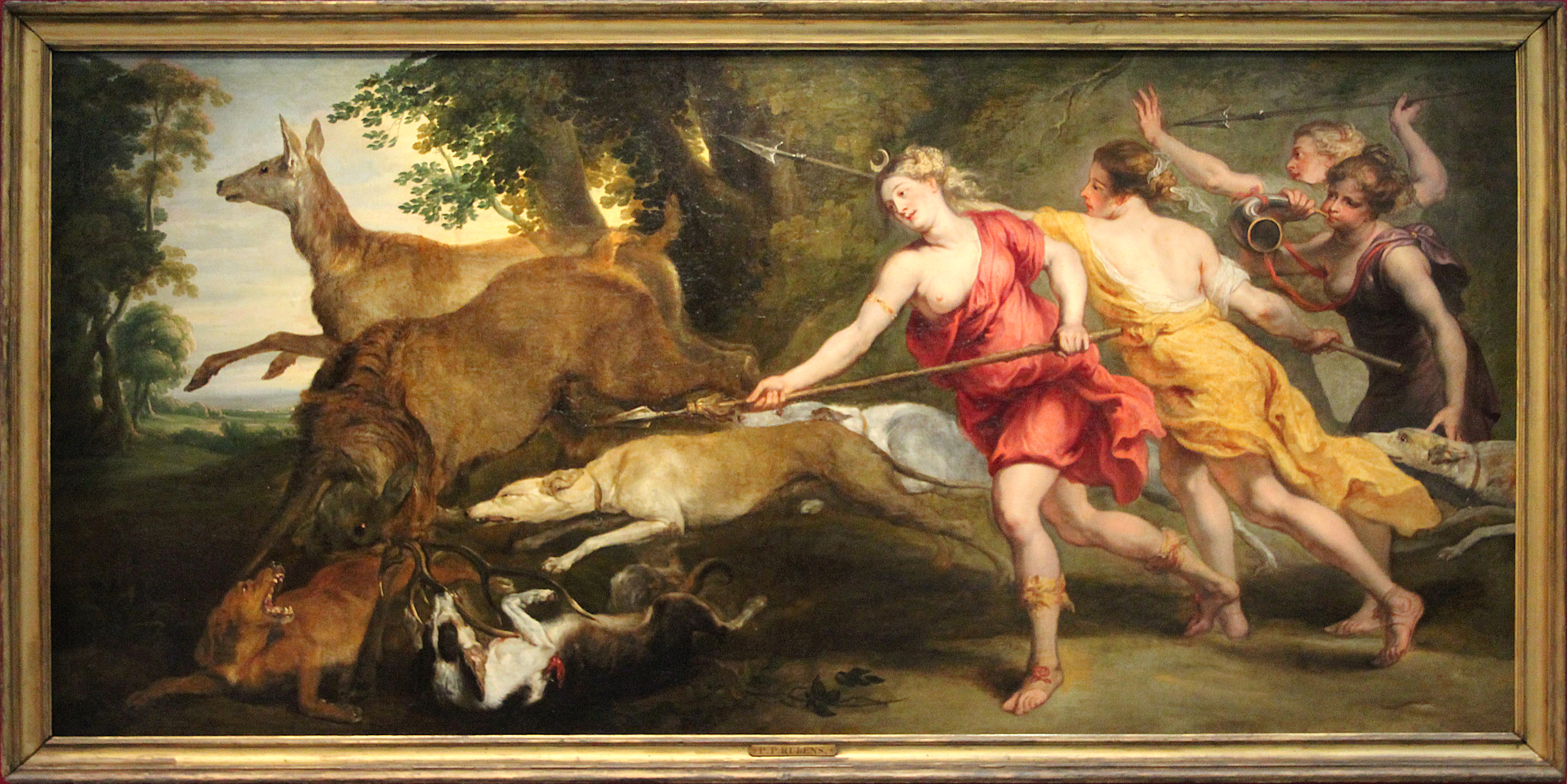 Diana Huntress and her Nymphs, oil on canvas by Peter Paul Rubens (1636-1639) on orders of Custom Philip IV of Spain to his hunting lodge. - Work as part of a private collection in Madrid, photographed during the exhibition " L'Europe de Rubens " of Louvre-Lens museum where it is exposed temporarily.